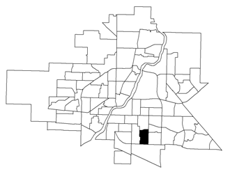 A map showing the location of the Nutana Park neighbourhood in Saskatoon, Saskatchewan, Canada